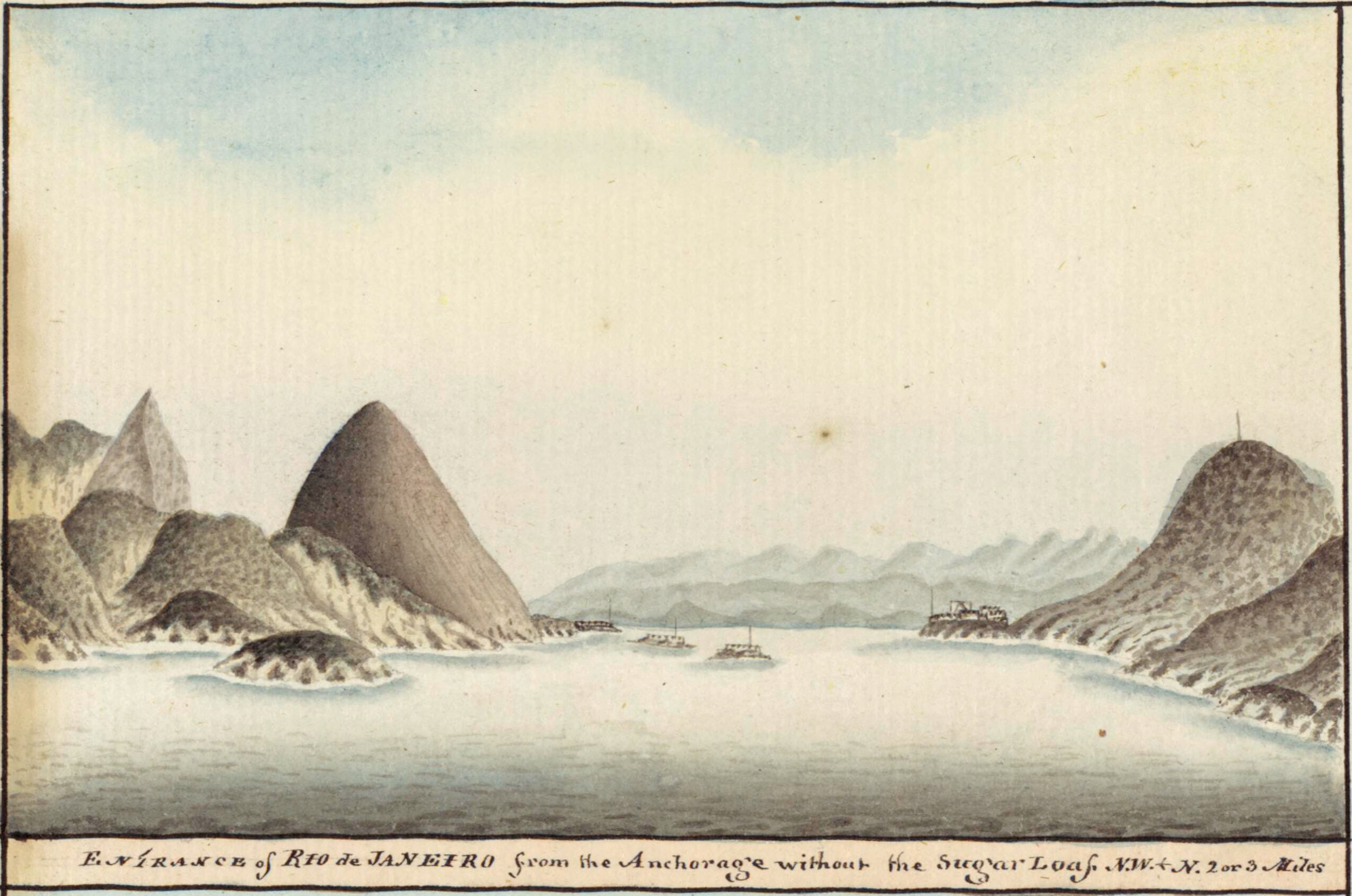 The Sugar Loaf mountain is visible at center-left